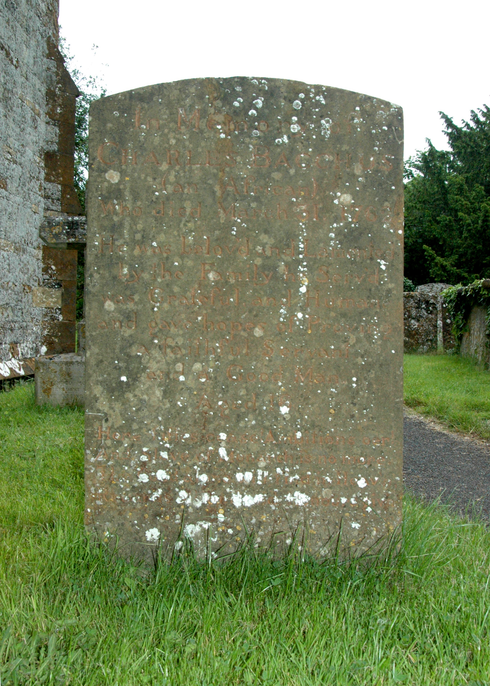 Church of England parish church of St Mary the Virgin, Culworth, Northamptonshire: gravestone of Charles Bacchus, an African servant who died in 1762 at the age of 16